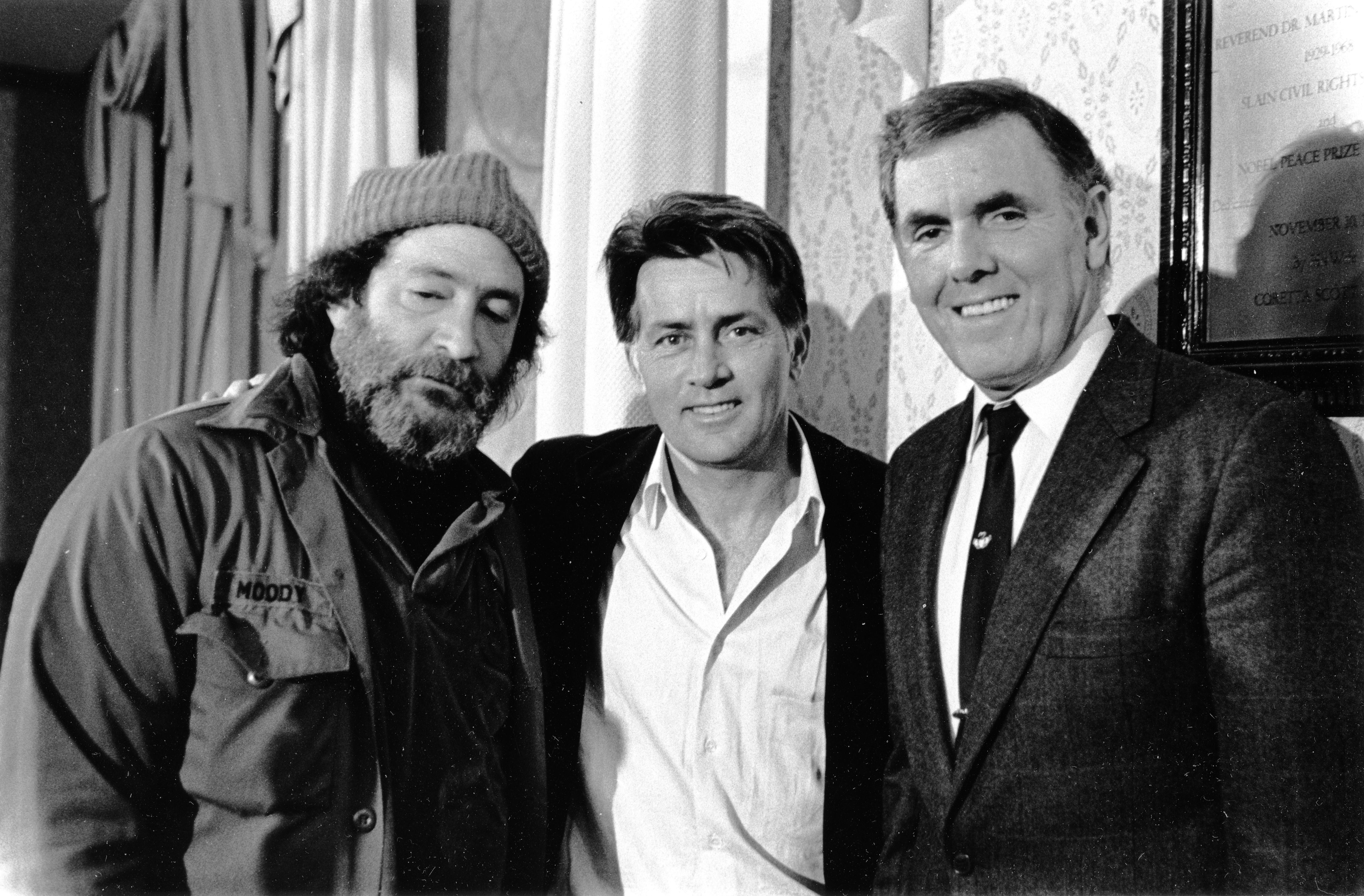 Title: Homeless Advocate Mitch Snyder, Actor Martin Sheen, Mayor Raymond L. Flynn Creator: Mayor's Office - City Photographer Date: 1987 January Source: Mayor Raymond L. Flynn records, Collection #0246.001 File name: RF_005 Rights: Copyright City of Boston Citation: Mayor Raymond L. Flynn records, Collection #0246.001, City of Boston Archives, Boston